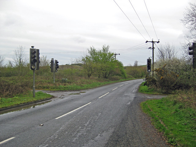 Disused Traffic Lights on Thealby Lane These disused traffic lights are situated at the point where the access road for the old Ironstone workings crossed Thealby Lane.